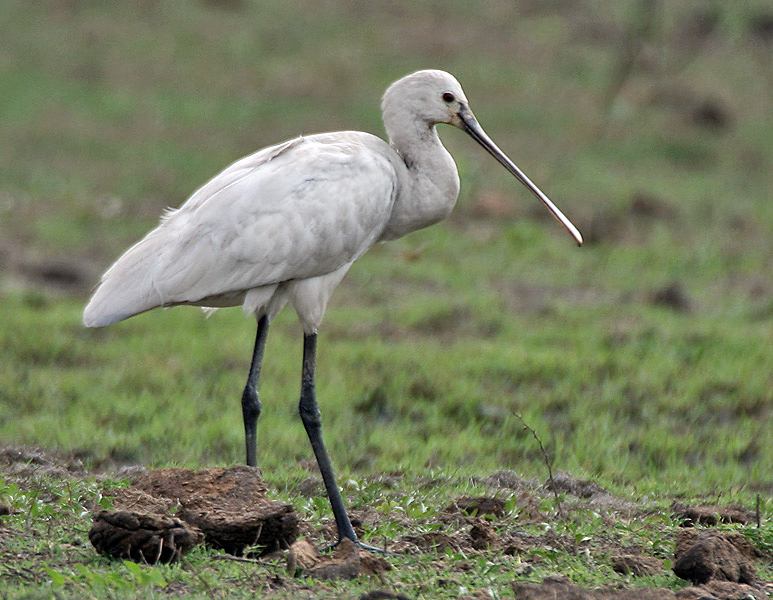 Eurasian Spoonbill Platalea leucorodia at Keoladeo National Park, Bharatpur, Rajasthan, India.